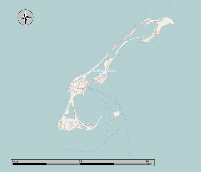 Cap-aux-Meules, Quebec. Open Street Map overlay in the Marble program. This map may be incomplete, and may contain errors. Don't rely solely on it for navigation.